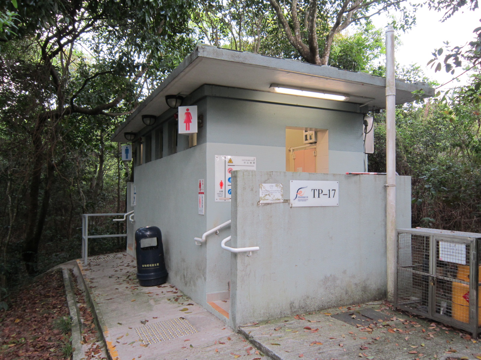 An aqua privy near Sha Lo Tung after refurbishment 中文（香港）: 翻新後的沙螺洞旱廁